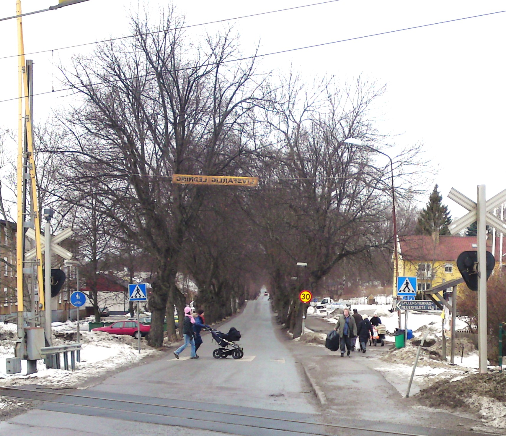 Näsby Avenue, Näsbypark, Täby, Sweden